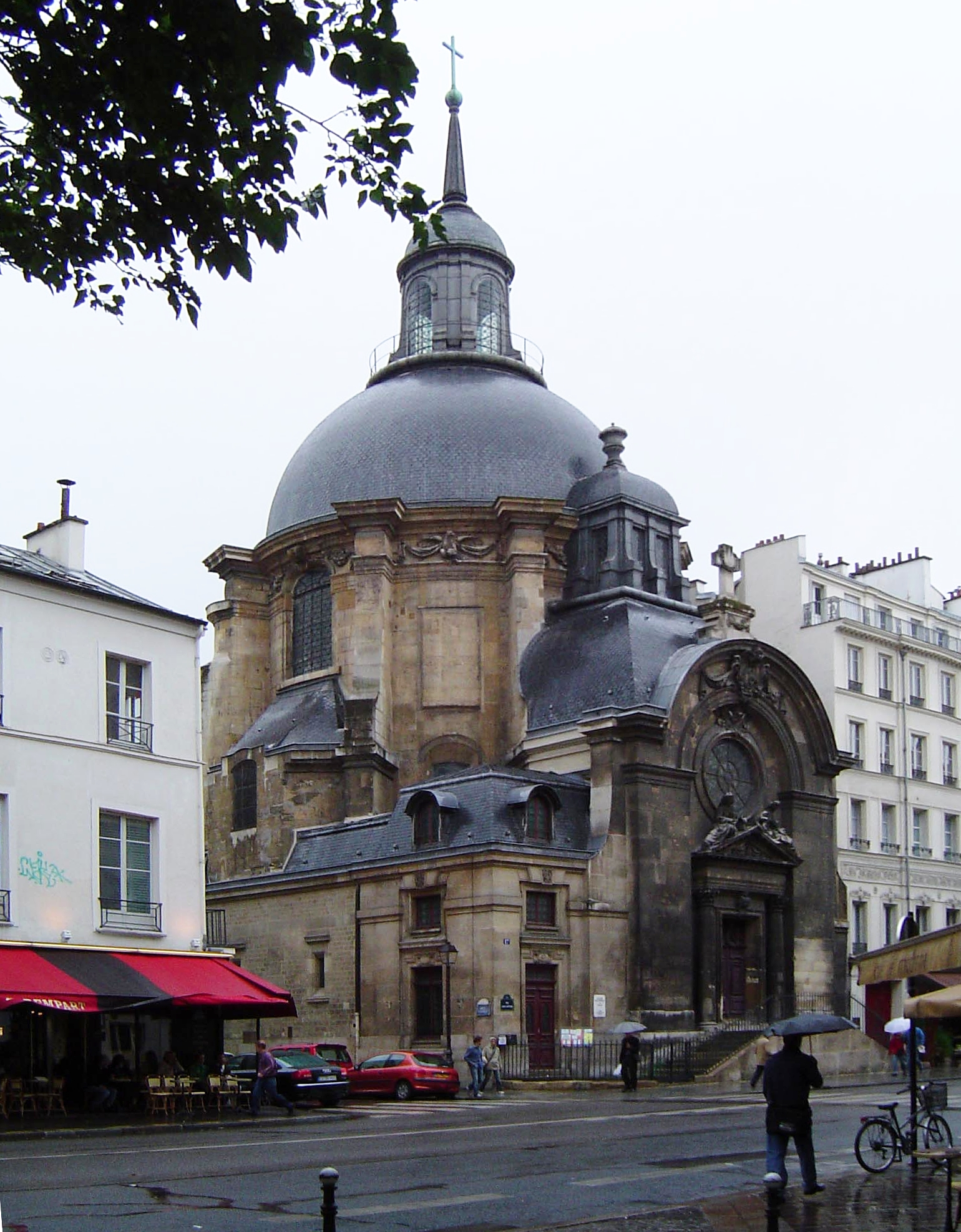 This caught my eye twice on different occasions prompting pictures both times.